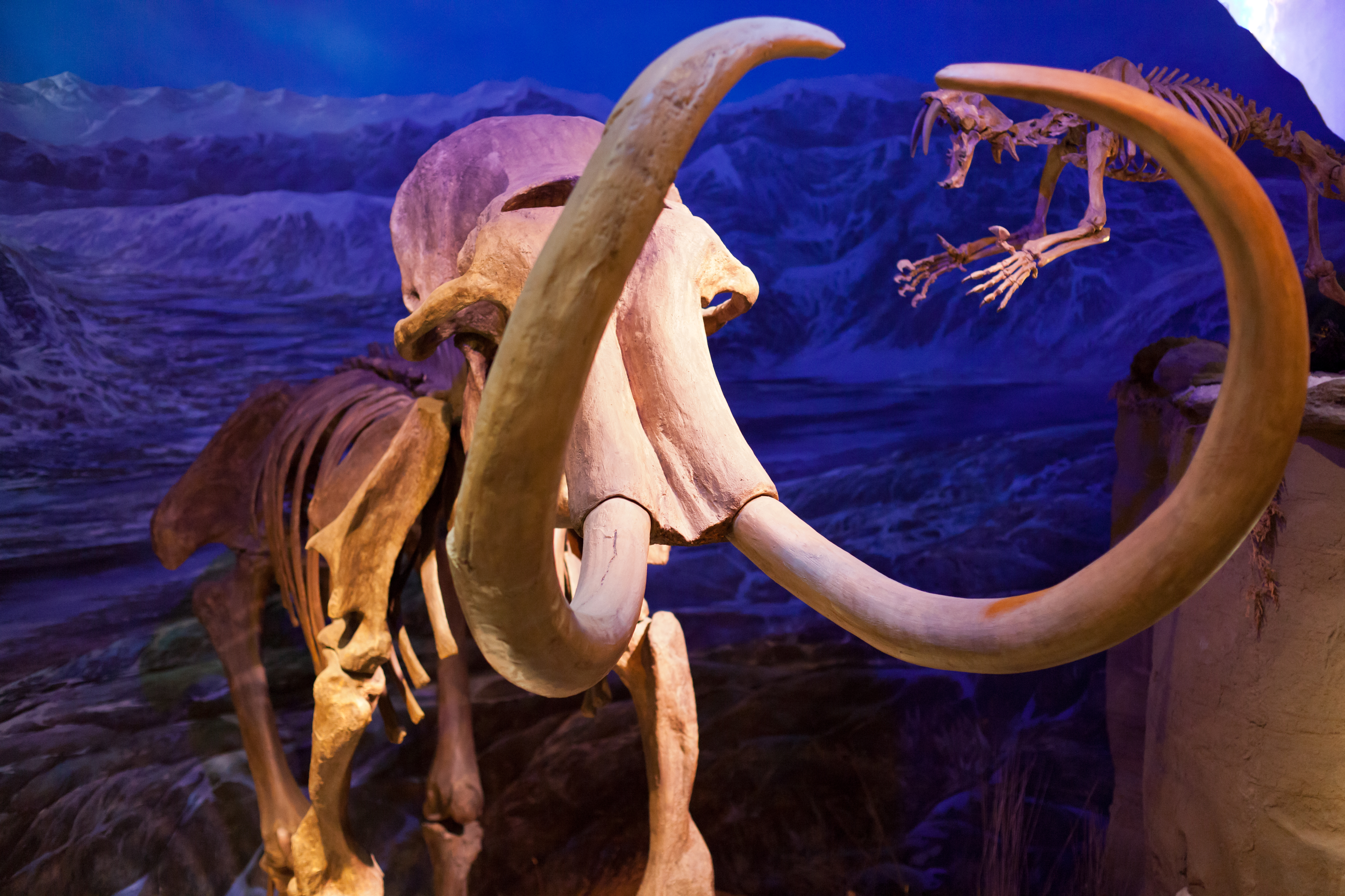 Museum diorama of mammoth and sabretooth-cat skeletons